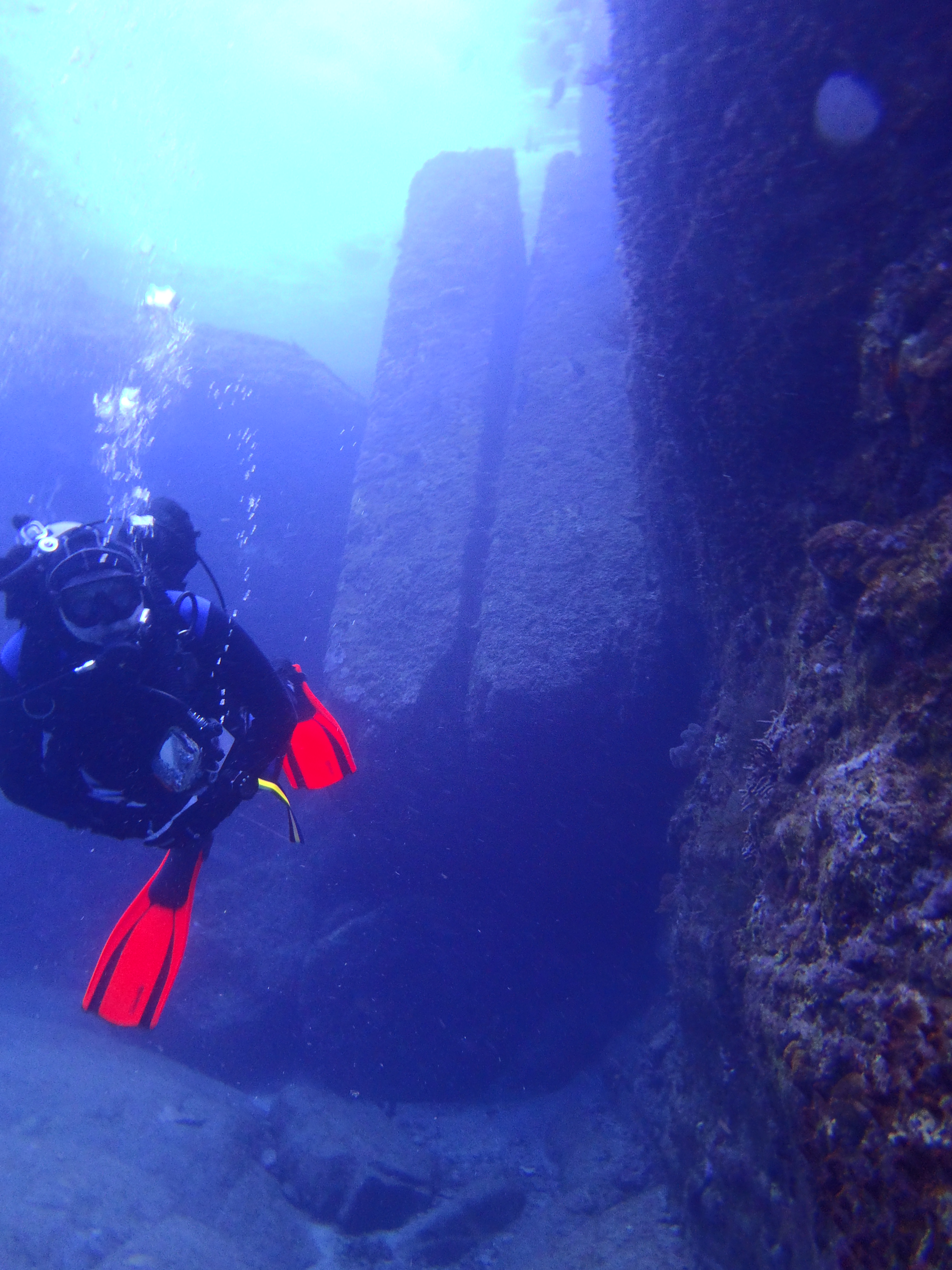 Two huge rectangular stone slabs laying perfectly parallel to each other